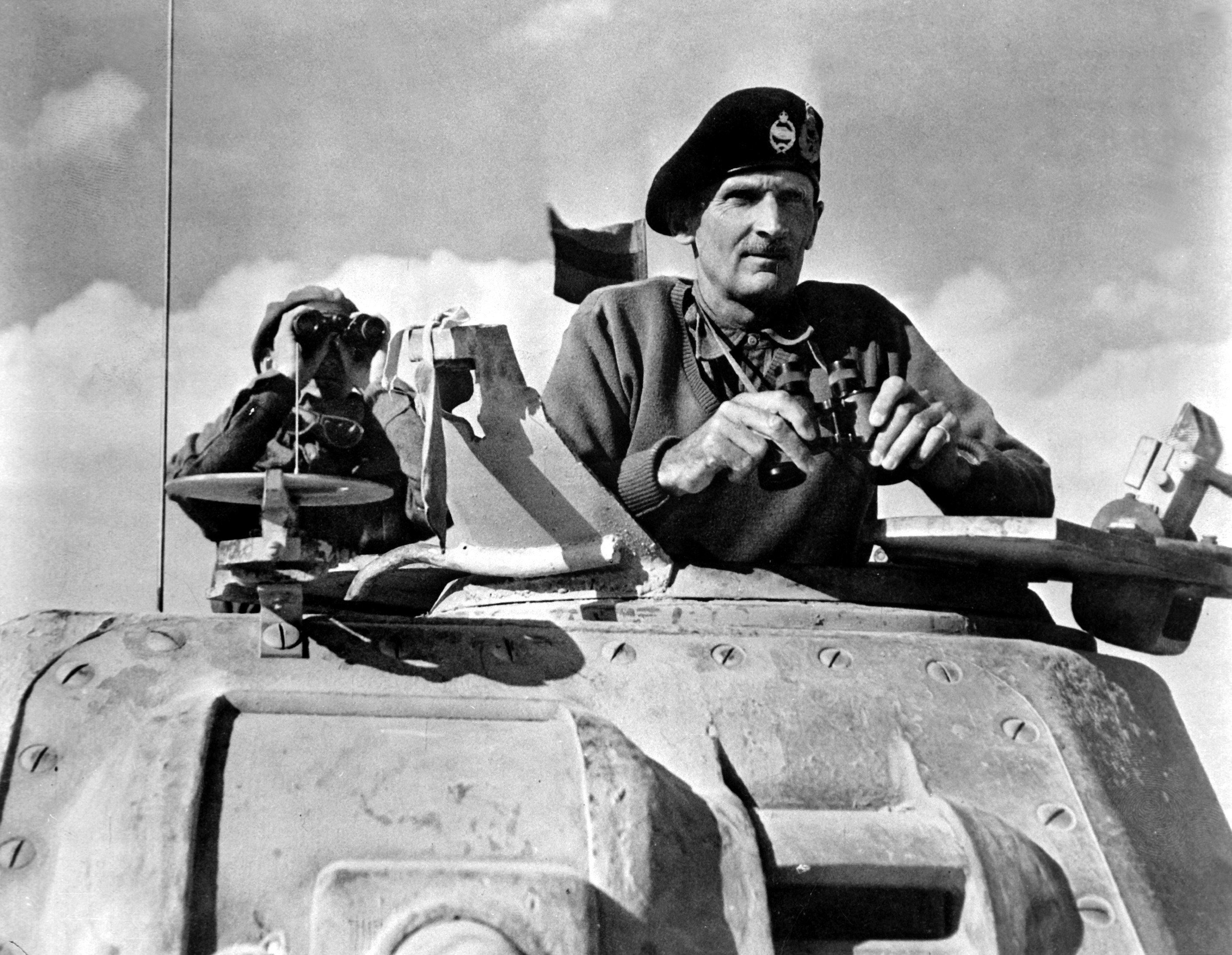 General Bernard L. Montgomery watches his tanks move up. North Africa, November 1942. British Official. (OWI) Exact Date Shot Unknown